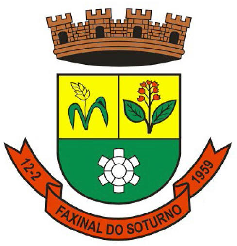 Coat of arms of the city of Faxinal do Soturno, Rio Grande do Sul, Brazil.